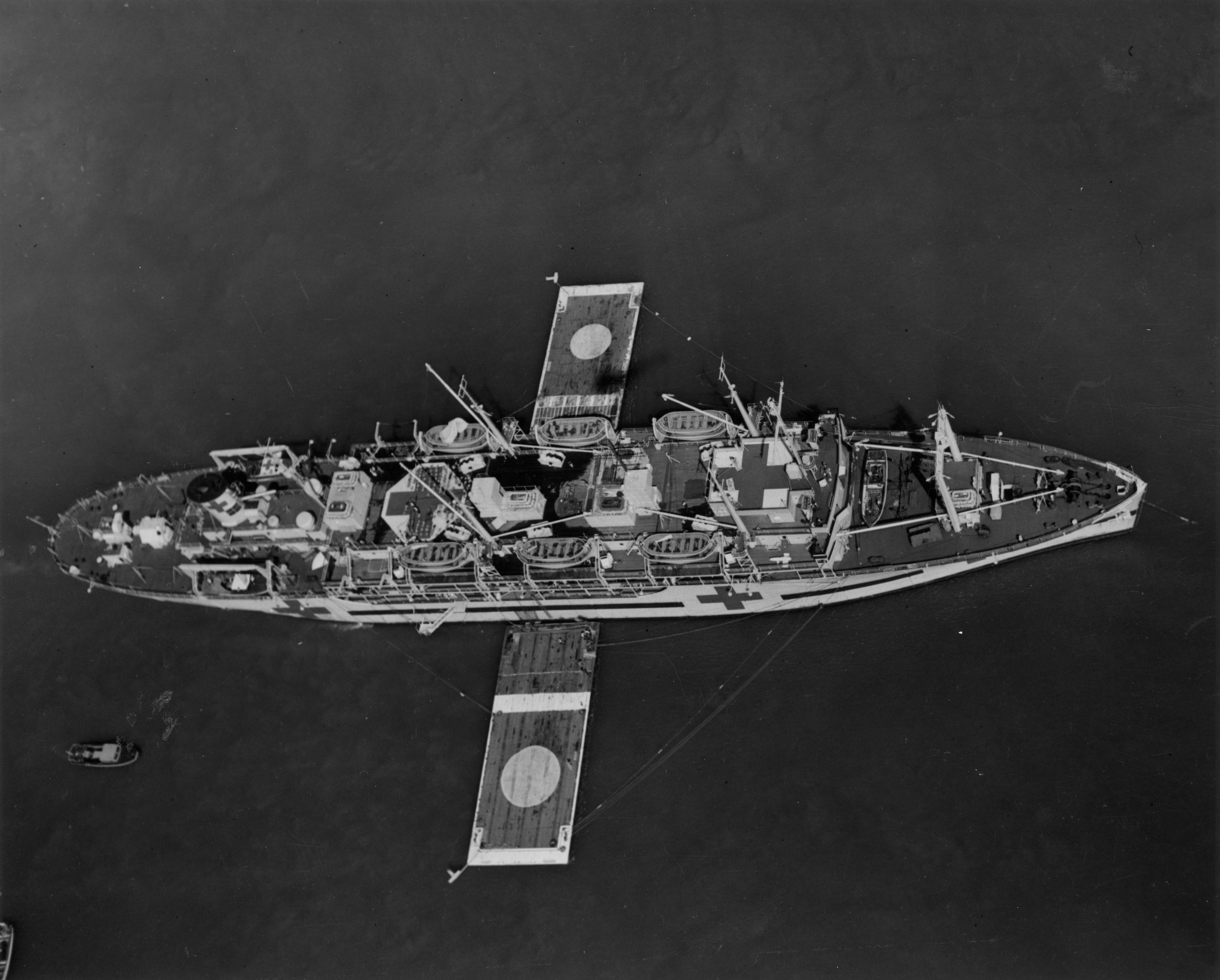 USS Haven (AH-12) awaits Marine helicopters bringing in wounded from the front lines, Korea. Landing platform of each side of ship. At anchor in Inchon Harbor in the summer of 1952 looking like a giant space station with solar panels extended. A painted yellow disk on the deck of each barge marked the landing zone. [Hospital ships. Transport of sick and wounded.] [Scene.] Haven (AH-12). 08/1952; USN 445550; U.S. Navy BUMED Library and Archives